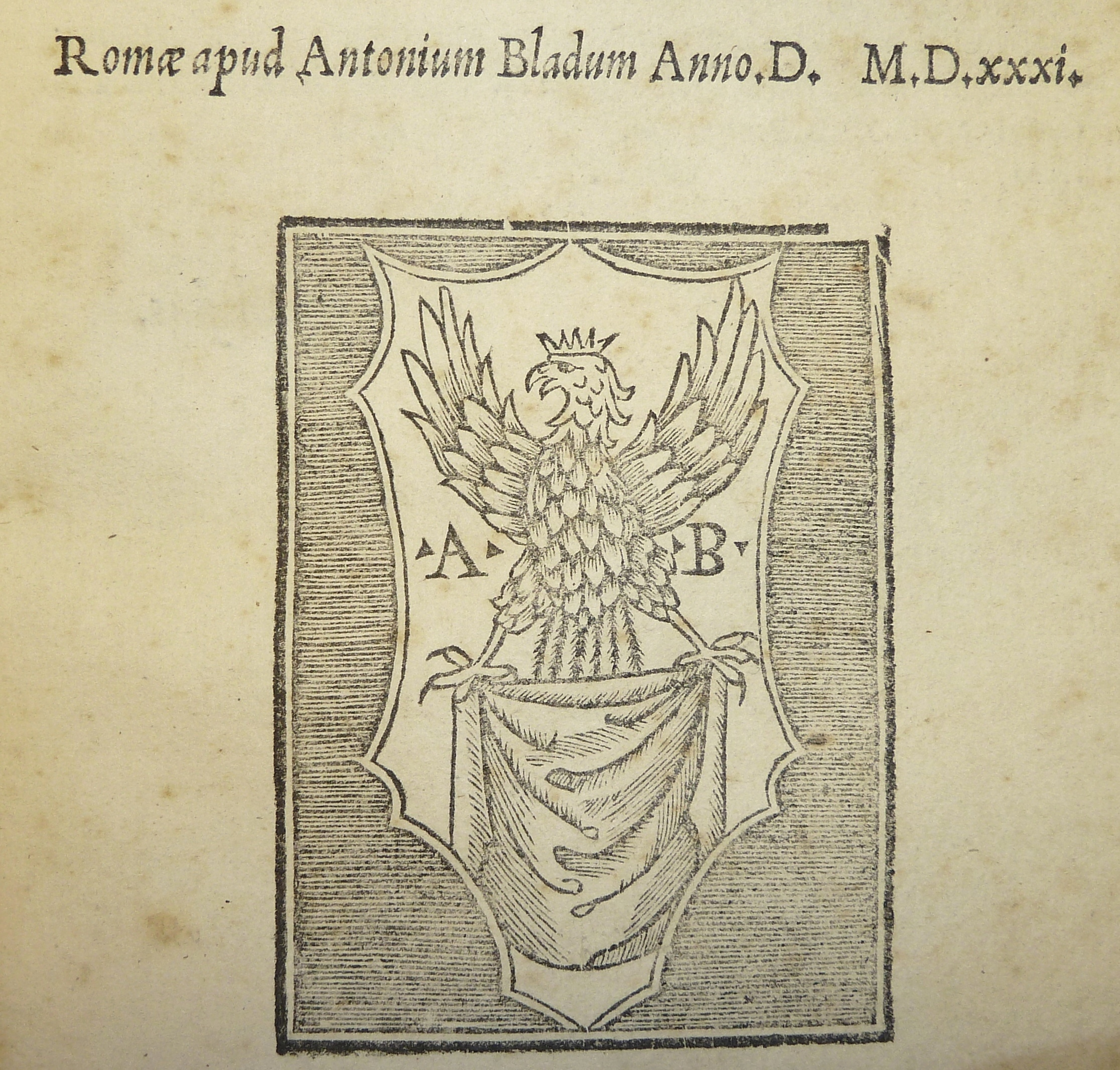 A book published by Antonio Blado in 1531. The book is described by University of Pennsylvania libraries as "Zapella 129"; I don't know what this means. Penn Libraries call number: IC5 N5596 531d